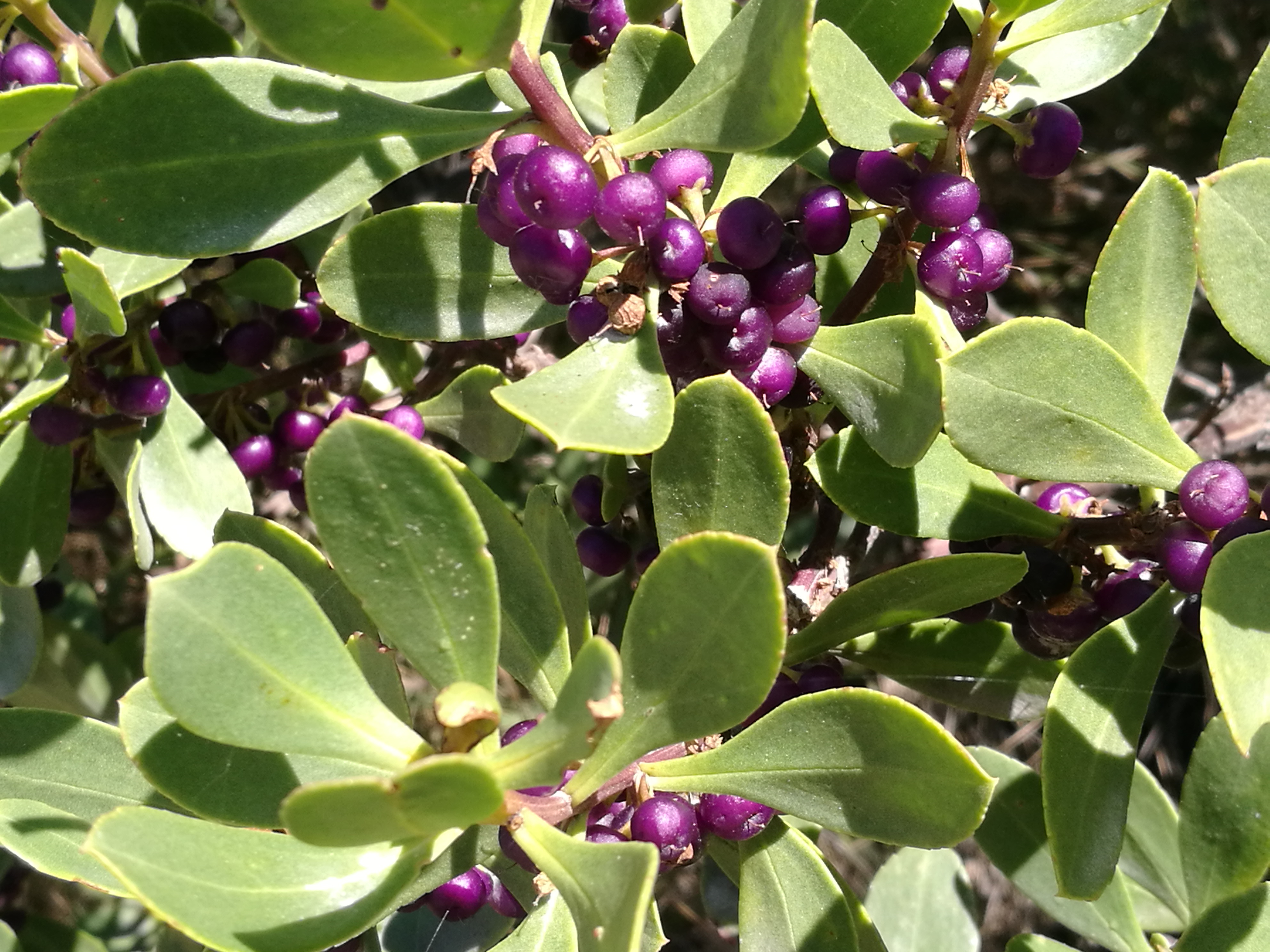 Myoporum insulare, all along the coast from Inverloch to Cape Paterson